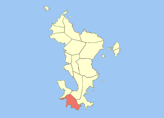 Locator map of Kani-Kéli (Mayotte)